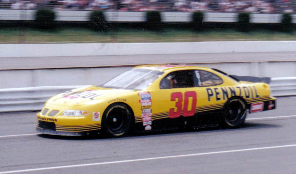 NASCAR driver Johnny Benson at Pocono in 1997.